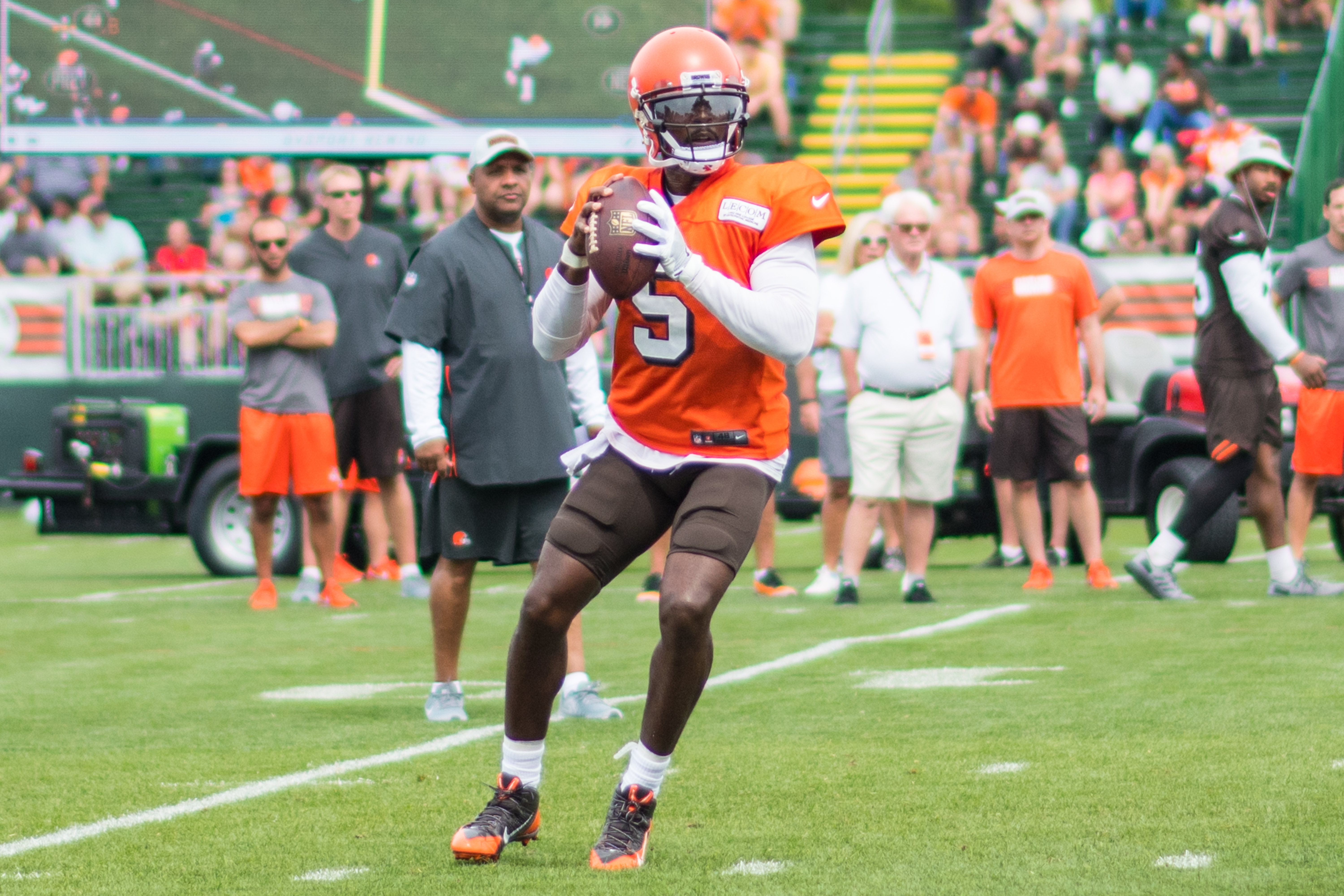 Tyrod Taylor and Hue Jackson